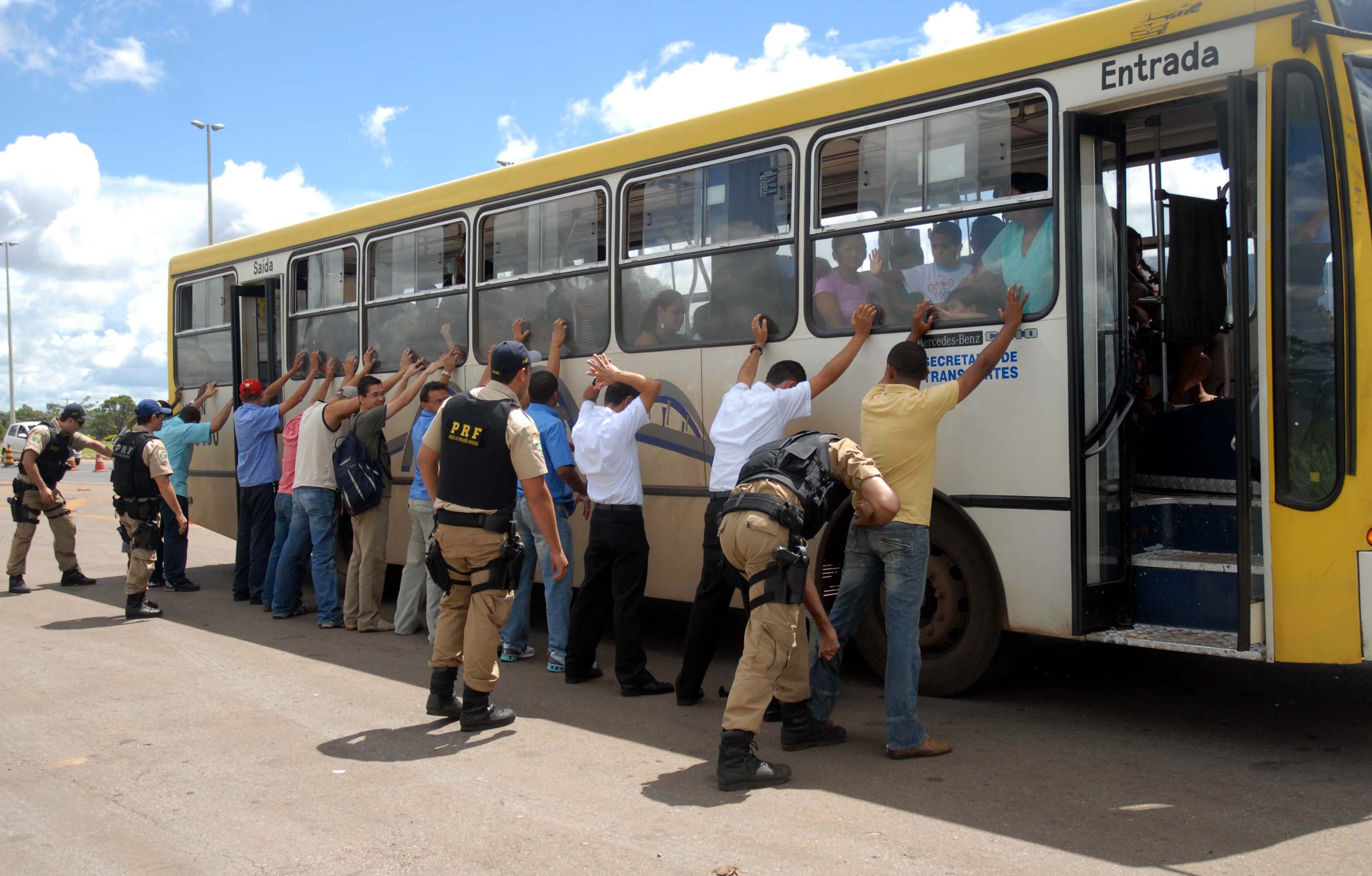 CAIO bus with Mercedes-Benz chassis in Brazil.